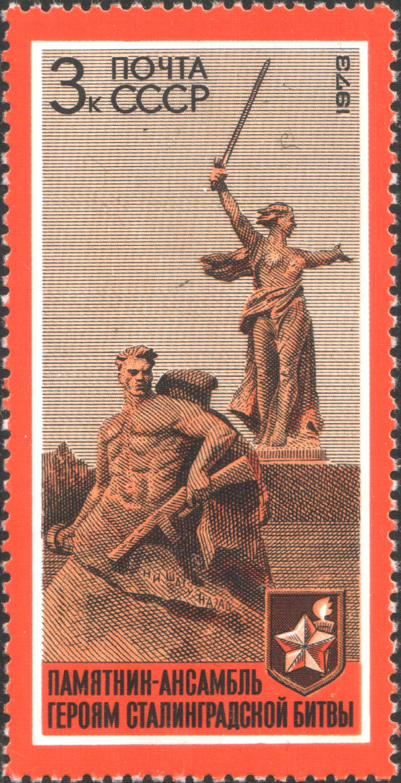 USSR stamp